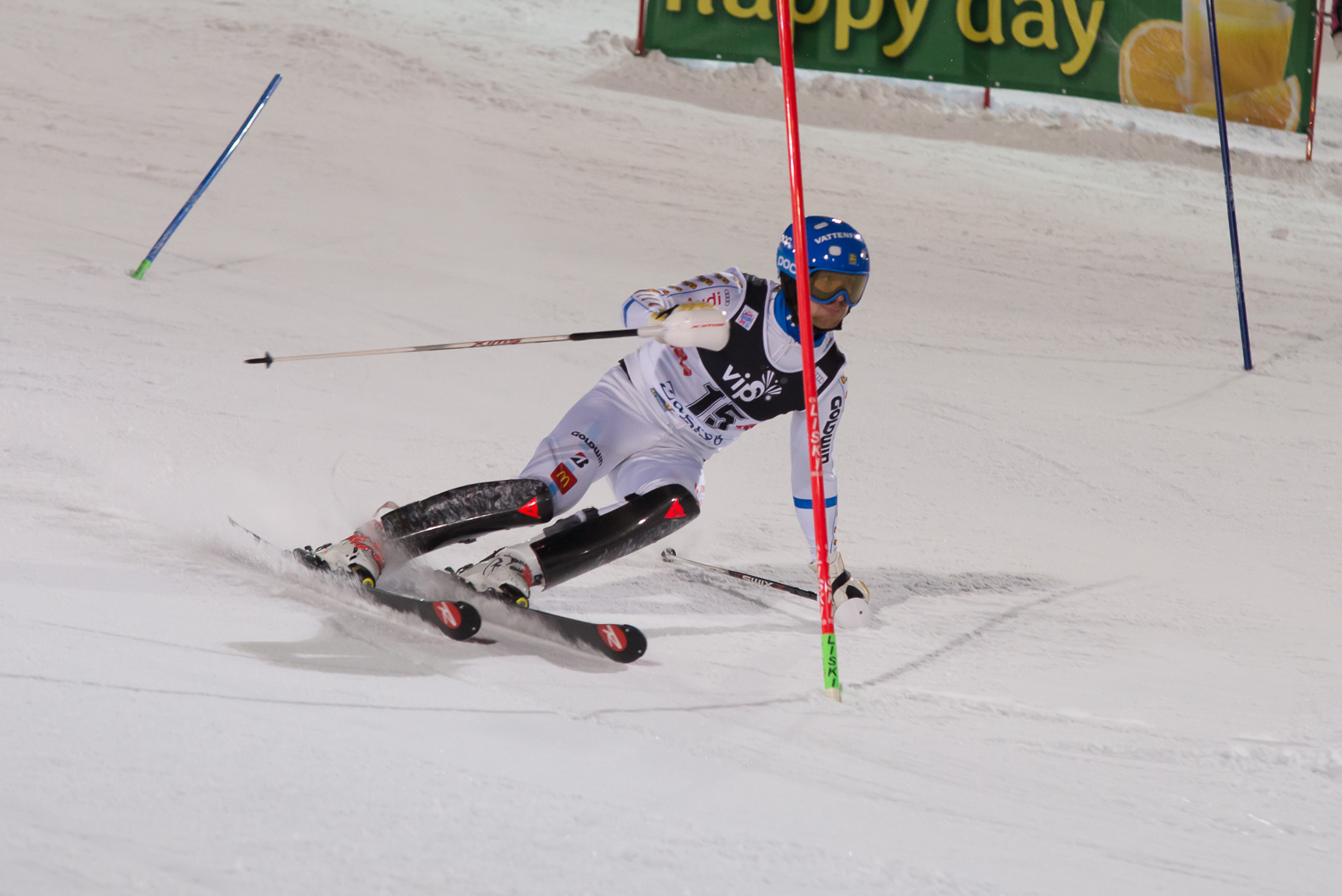 Axel Bäck, Snow King Trophy Zagreb 2015